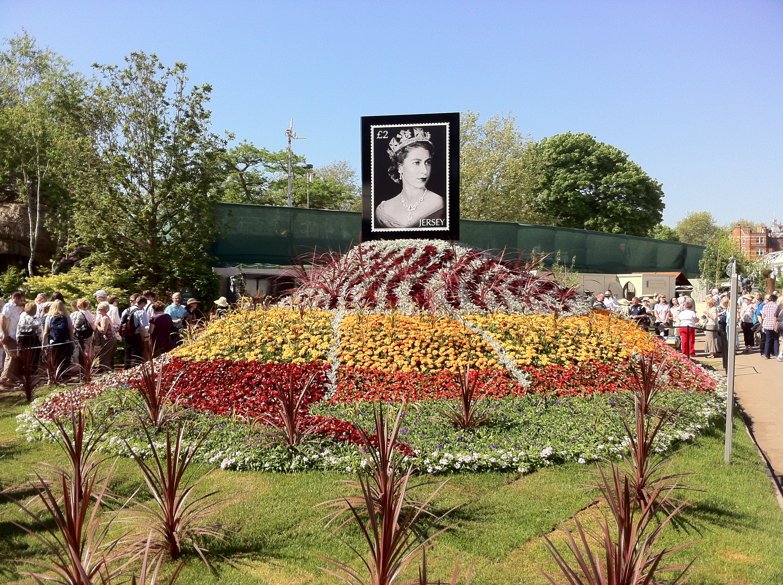 Diamond Jubilee display from Jersey at the RHS Chelsea Flower Show 2012